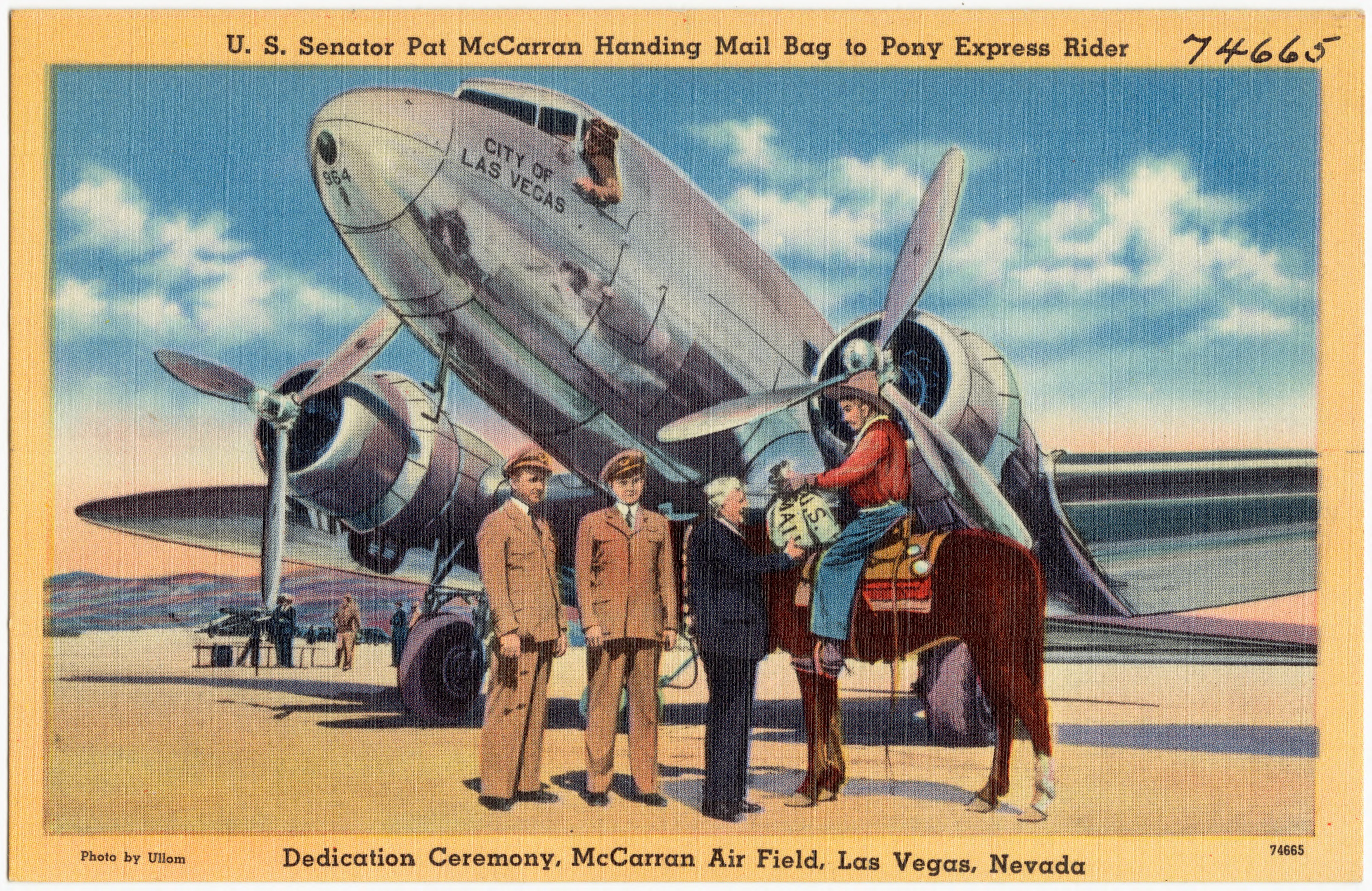 Title: U.S. Senator Pat McCarran handing mail bag to Pony Express rider, Dedication Ceremony, McCarran Air Field, Las Vegas, Nevada Subjects: Airports Places: Las Vegas Notes: Title from item. Extent: 1 print (postcard) : linen texture, color ; 3 1/2 x 5 1/2 in. Accession #: 06_10_015504